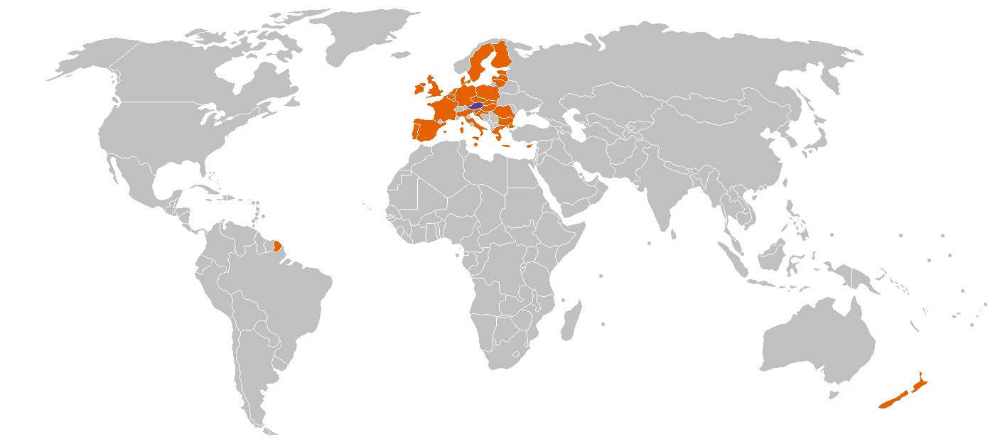 Worldwide laws regarding experimentation on non-human apes Ban on all ape experimentation Ban on great ape experimentation